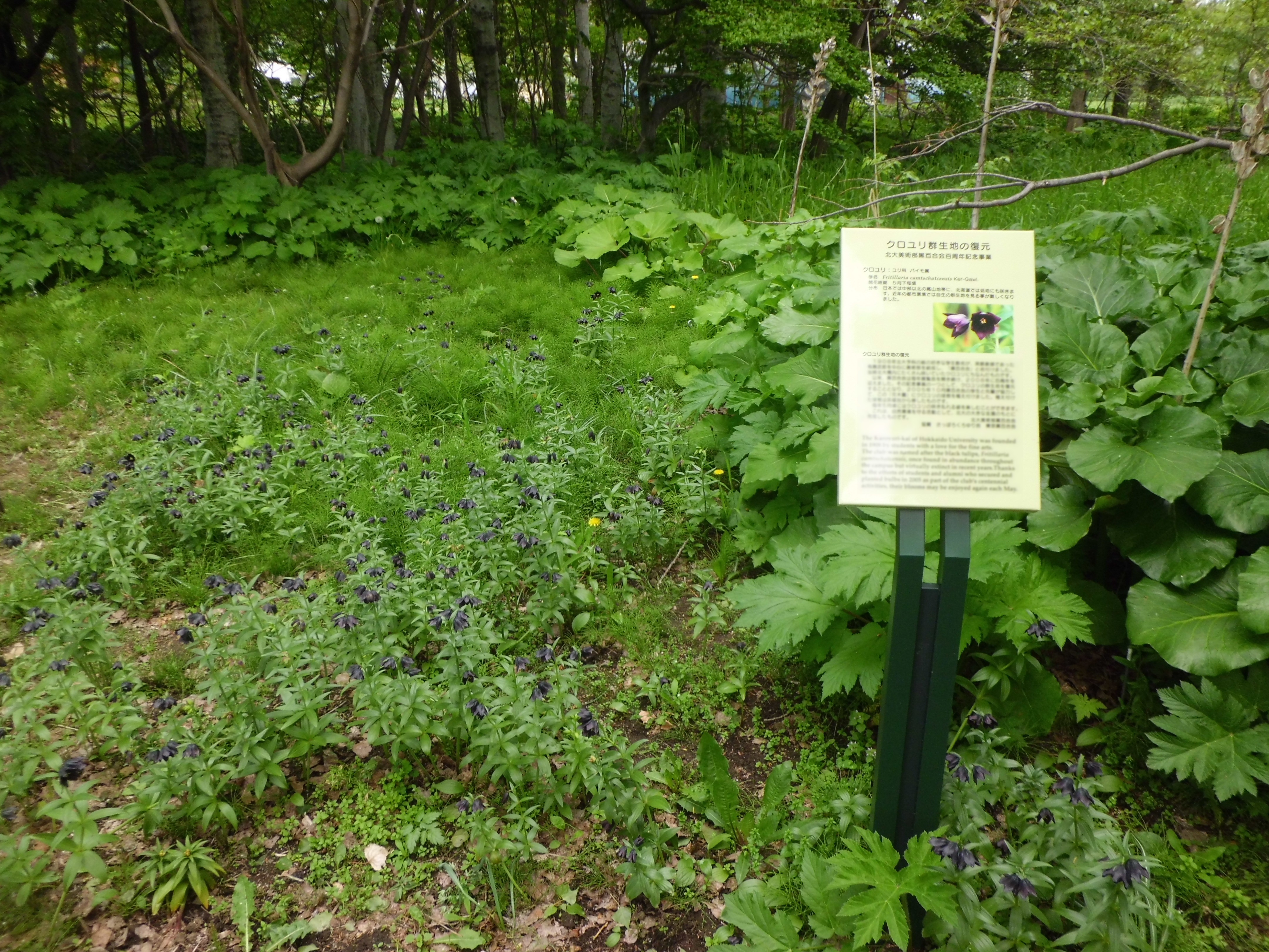 Black Lilies at Hokkaido University